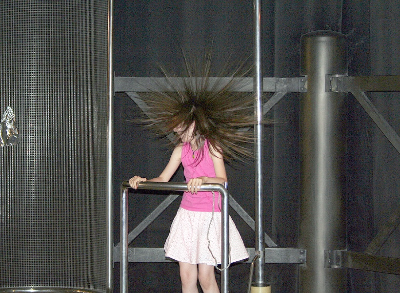 Photo from the Musée de la découverte (Discovery Museum), Paris (electrostatics) The girl is touching the terminal of a powerful electrostatic generator and is charged with a high electrostatic charge. The strands of her hair repel each other and stand out from her head. Alteration: brightened so girl's hair can be seen, cropped.